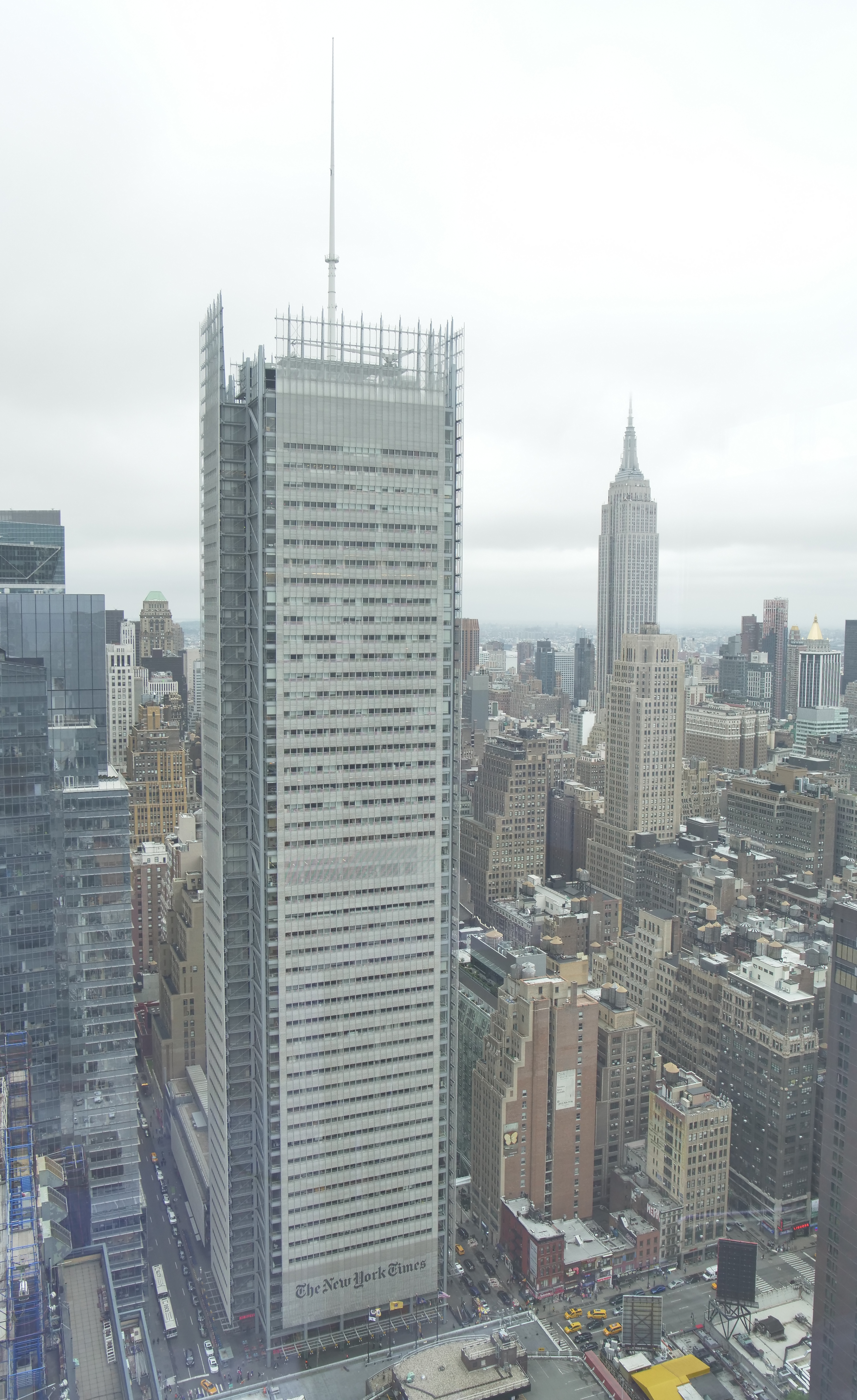 The New York Times Building, Manhattan. 2018.